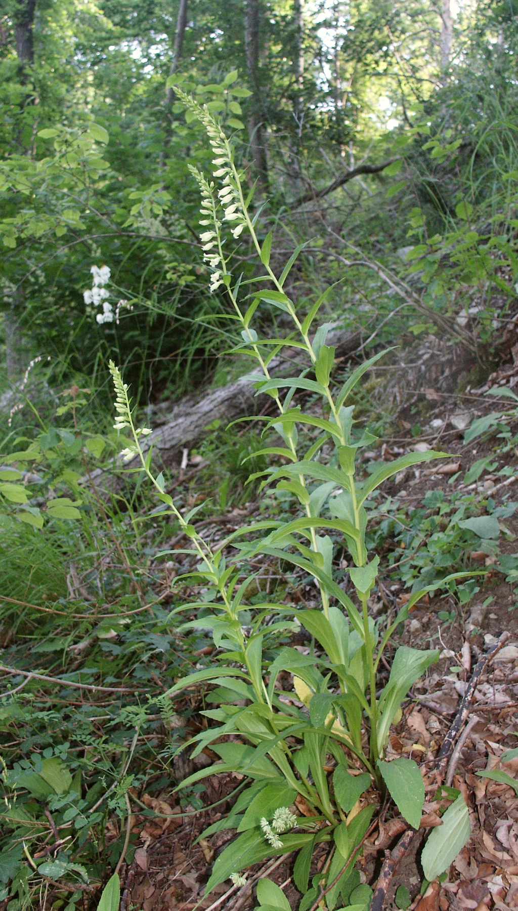 Digitalis lutea, Hohenlohe, Germany